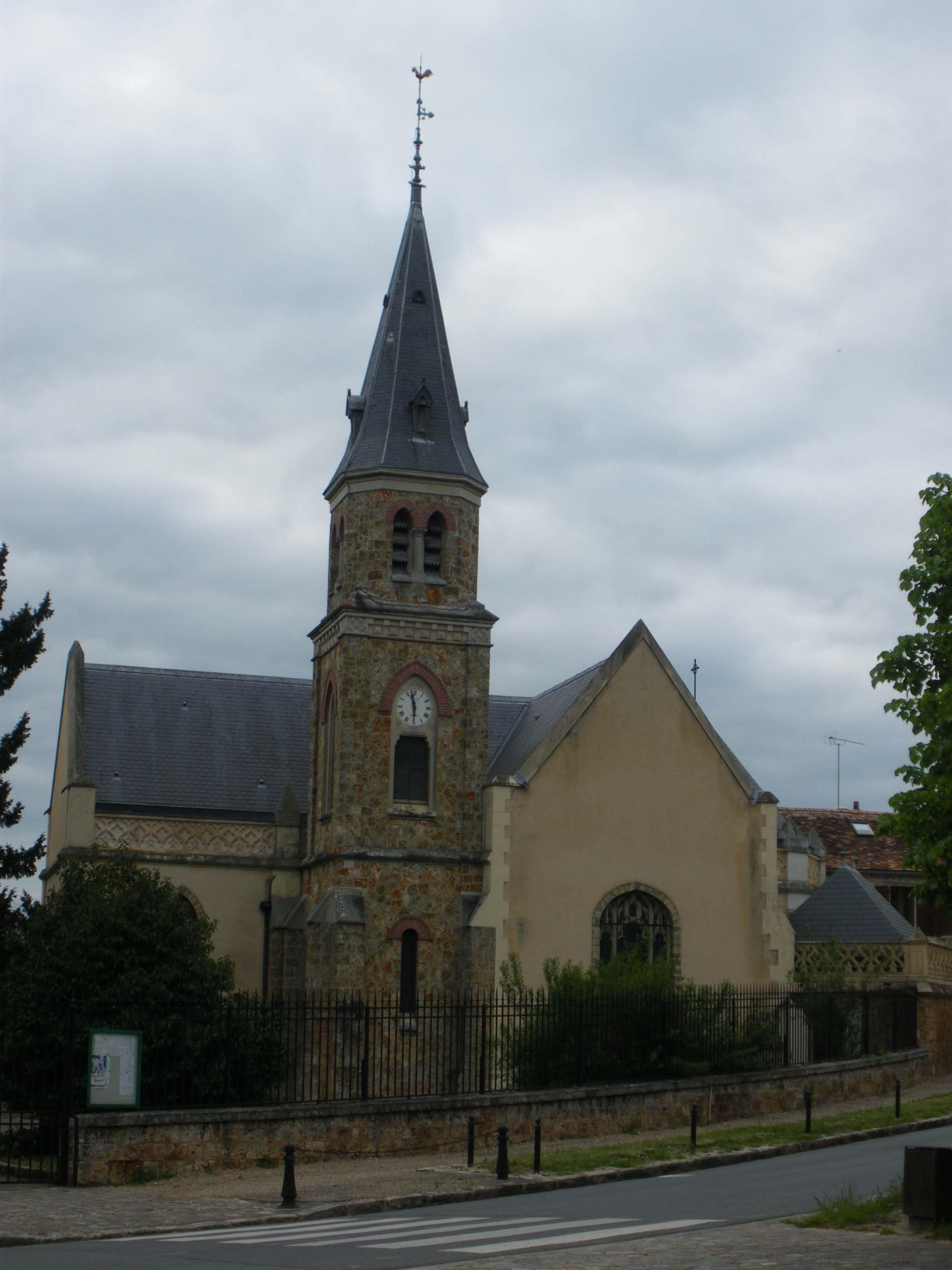 Vaugrigneuse's Church, Essonne, France